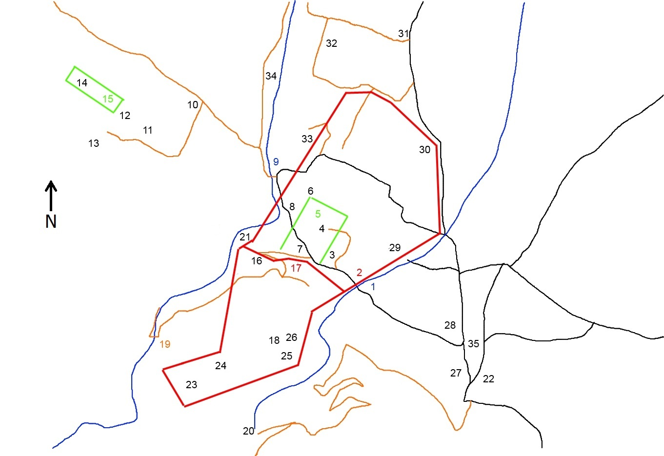 Plan of ancient Troizen: 1 = Ravine of St. Athanasius 2 = City wall 3 = Church of St. George 4 = Temple of Artemis Sotira 5 = Agora 6 = Church of Agia Soteira 7 = Stone of Thiseas (Theseus), house of the Muses and roman bath 8 = Church of St. John the Babtist 9 = Stream Gefiron (ancient Chrysoroas) 10 = Church 11 = Farm Kokkinia 12 = Trough between farm and church (stadium ?) 13 = Asclepeion and temple of Hippolytus 14 = Church Episcopi 15 = Stadium 16 = Tower (Palace of Thiseas) and roman grave (RG 6) 17 = Diatchisma 18 = Theatre 19 = Devils bridge 20 = Church of St. Athanasius 21 = Sanctuary of Demeter Thesmophorus 22 = Sanctuary of Poseidon Phytalmius 23 = Acropolis and sanctuary of Athena Sthennias 24 = Sanctuary of Pan Lyterius 25 = Sanctuary of Aphrodite Akraia 26 = Sanctuary of Isis 27 = Church of St. John 28 = Main church of Trizina 29 = Cemetery of Trizina and church of St. Nicholas 30 = Roman graves (RG 3 and RG 4) 31 = Roman grave (RG 7) 32 = Roman grave (RG 5) 33 = Ruins of christian basilica 34 = Roman graves (RG 1 and RG 2) 35 = Trizina (modern town) Colours: black: paved roads; orange: dirt track; blue: streams; red: supposed course of the city wall; green: supposed position of the agora / stadium